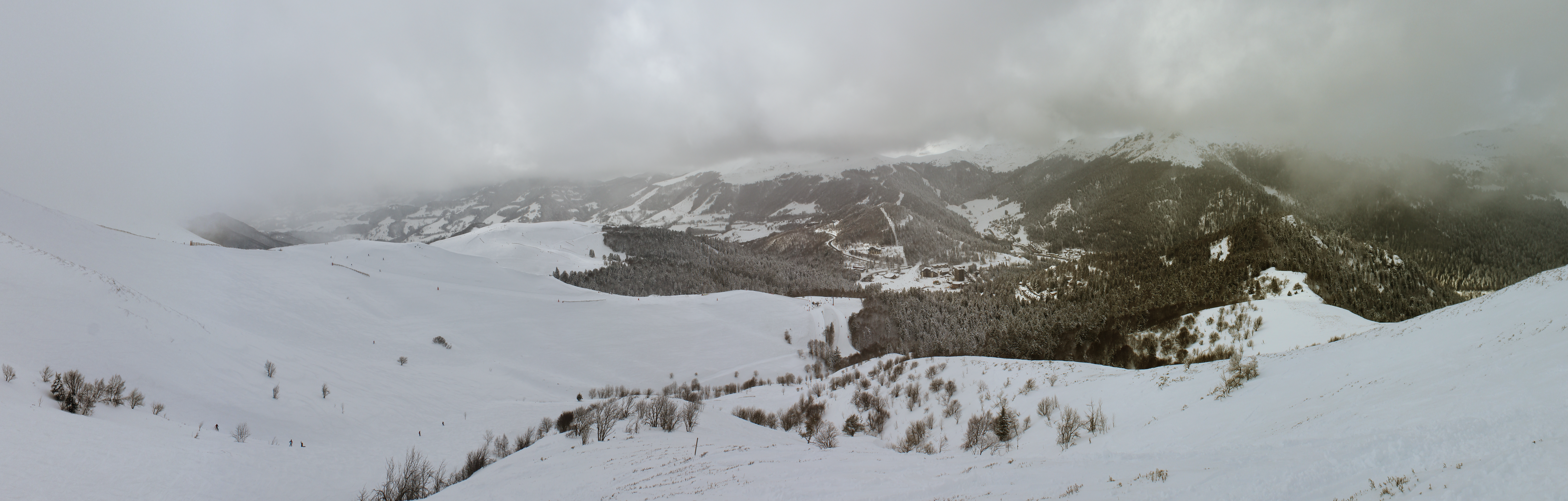 Le Lioran (France): the ski resort seen from the Aiguillon ski slope